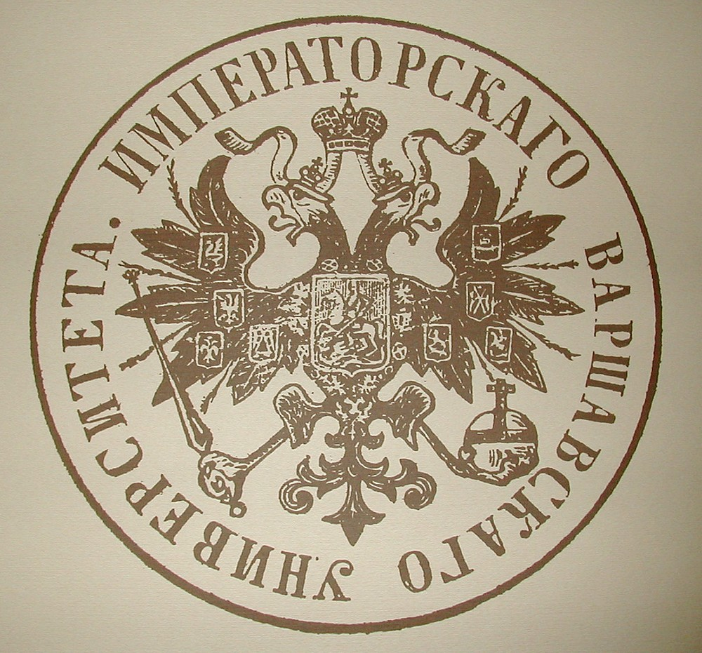 Emblem of the Russian Imperial University in Warsaw (1870-1915)